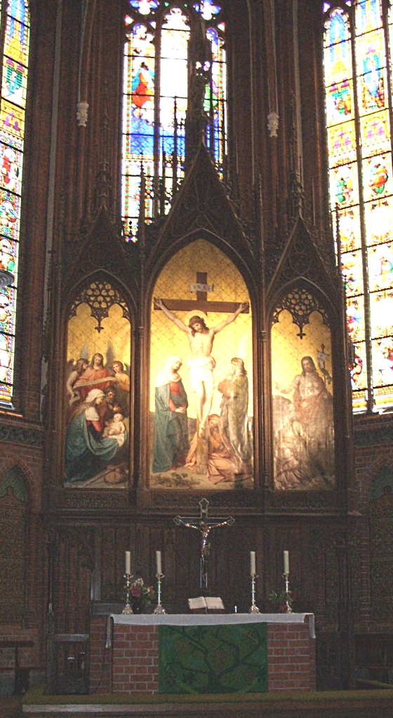 Altar of the Paulskirche in Schwerin, Germany